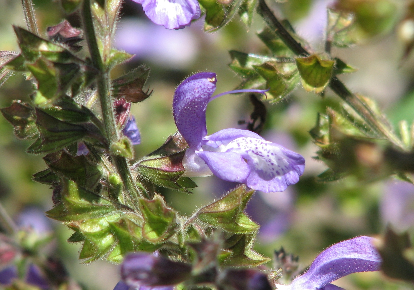 Salvia forsskaolei (cultivated, labelled) Geelong Botanic Gardens, Victoria, Australia